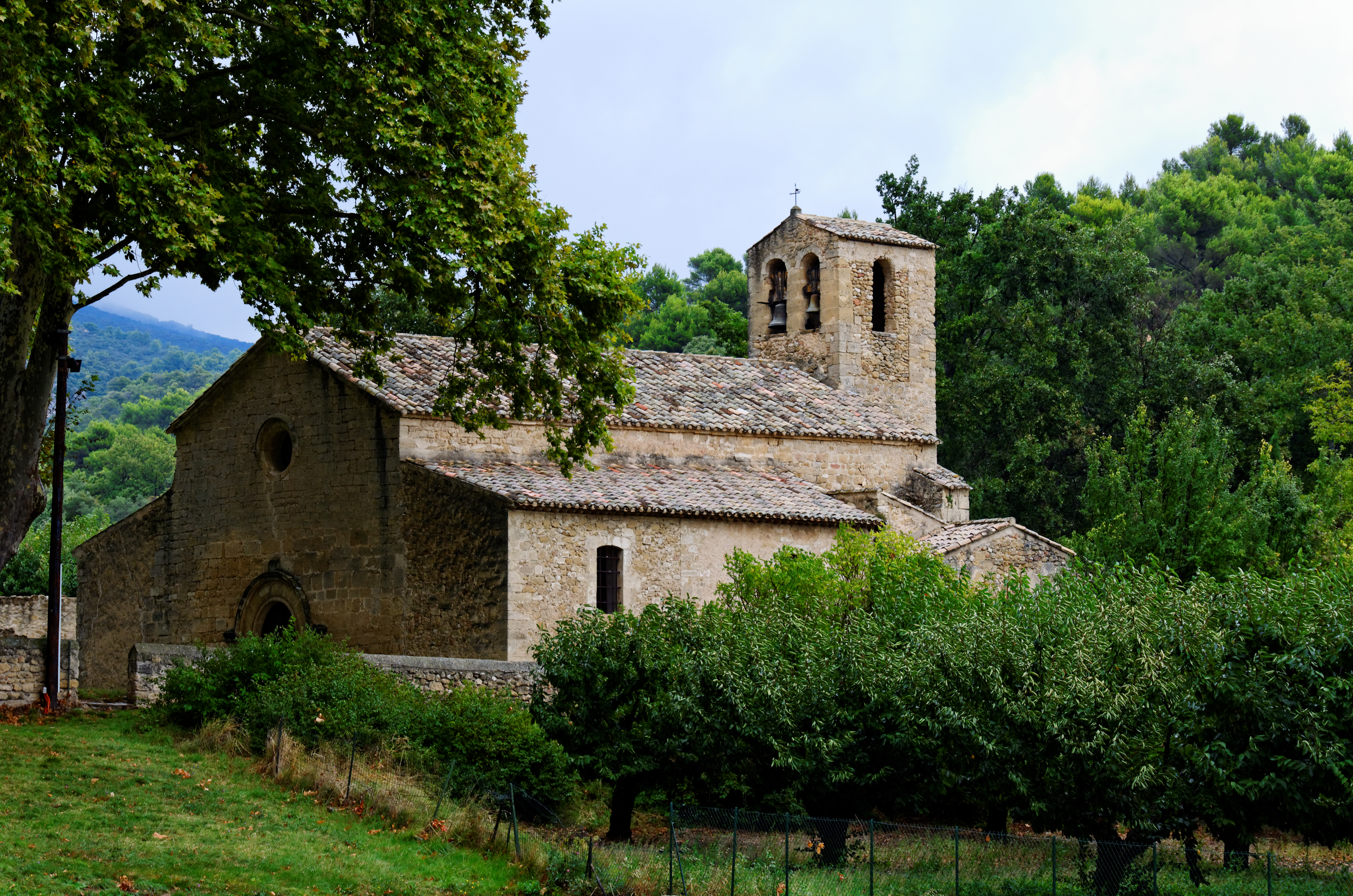 Church Saint Barthélémy in Vaugines, Vaucluse (84), France